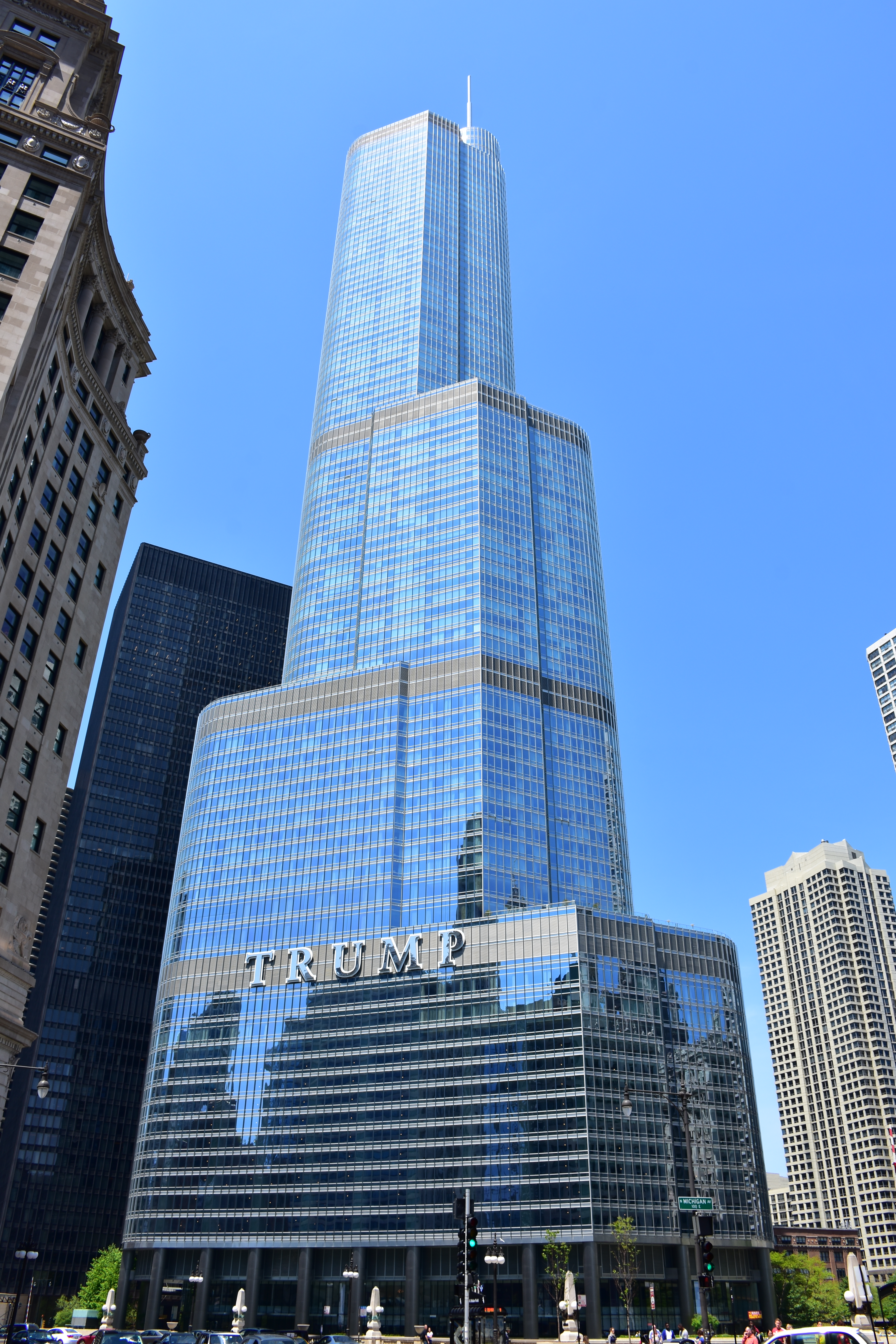 Trump International Hotel and Tower in Chicago, as seen from the street on May 2016